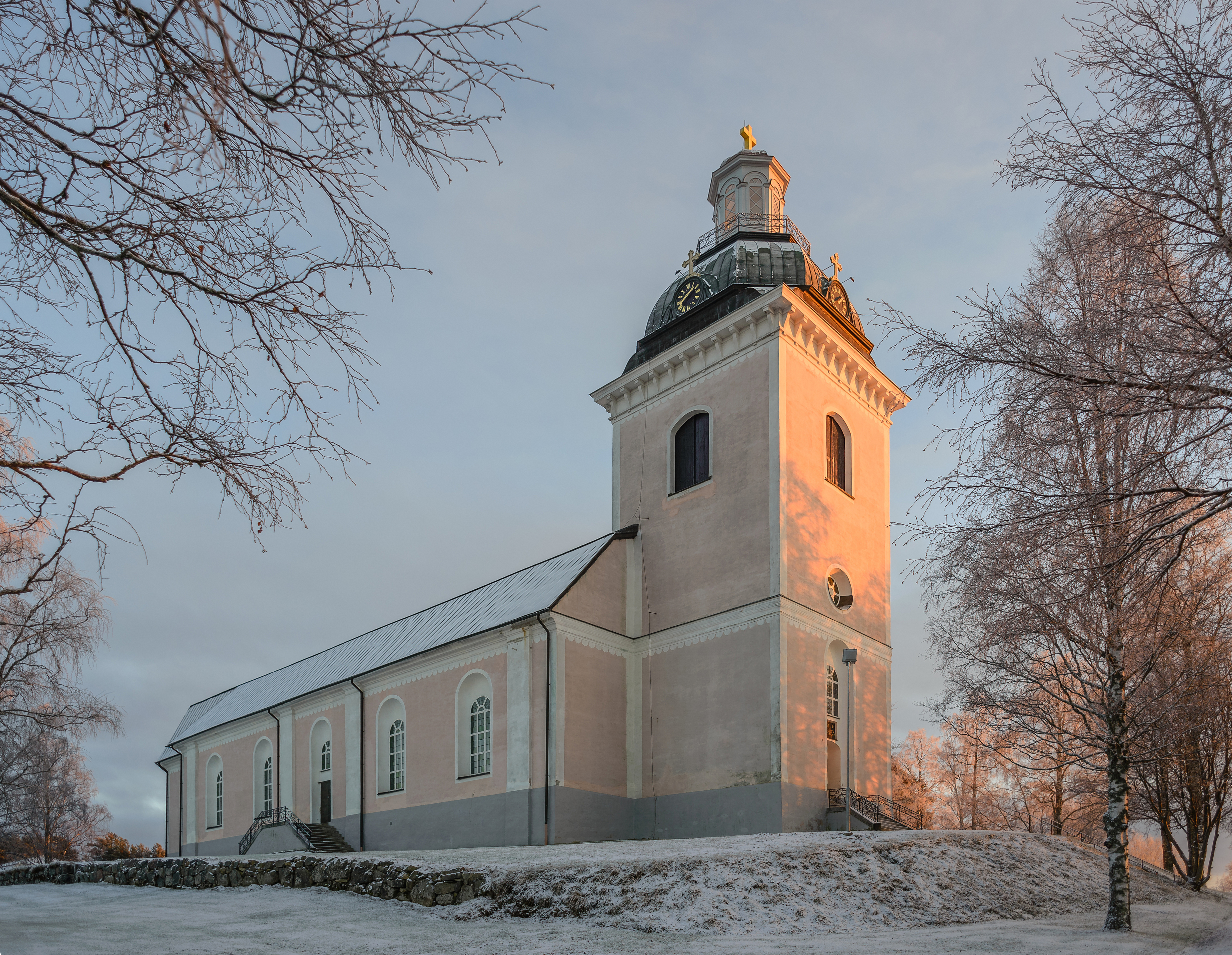 Färila church in Färila, Ljusdal Municipality, Gävleborg County. Church of Sweden, Färila Parish, Diocese of Uppsala.